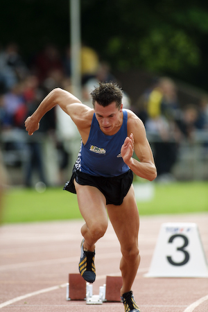 Bram Som during the 2002 Trigallez Record Meeting in Hoorn, The Netherlands